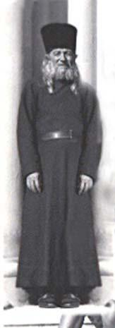 Theodorite (?-1939) Monk in Lešok Monastery